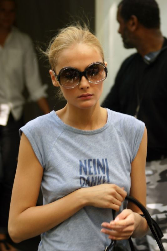 Ukrainian supermodel Snejana Onopka exits the Bryant Park tents during the Mercedes-Benz Fashion Week show on September 9, 2007.